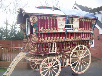 Romnichal Wagon